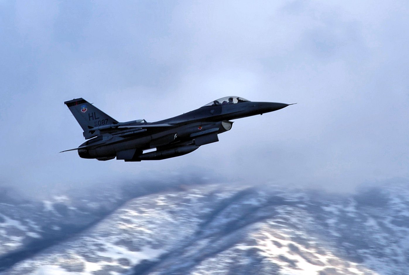 A 514th Flight Test Squadron F-16 Fighting Falcon takes off from Hill Air Force Base Dec. 15 2010. Hill Air Force performs multiple launches a day to insure each jet is fully functional and mission ready.(U.S. Air Force photo/Senior Airman Devin Doskey)